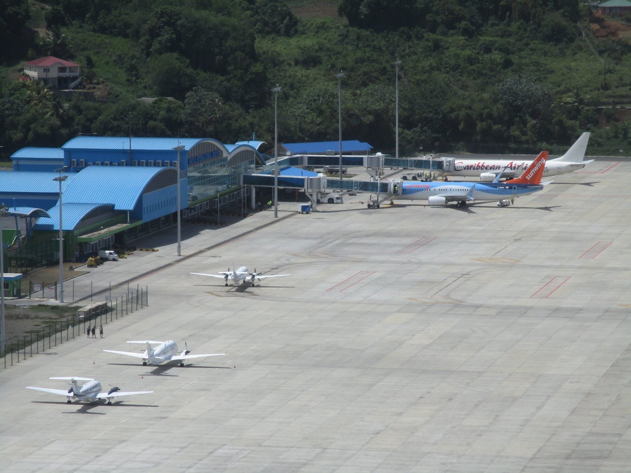 Airlines at Argyle, control tower view.